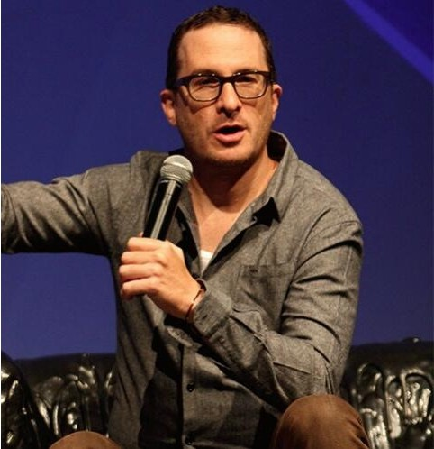 Filmmaker Darren Aronofsky speaks during his Master Class at the XVI Guanajuato International Film Festival, where he received the Cruz de Plata de Más Cine (Silver Cross) for his achievements in filmmaking. Guanajuato, Mexico. July 27, 2013.